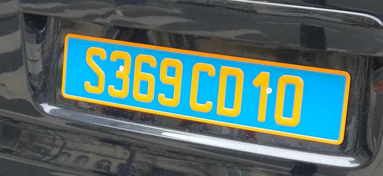 French diplomatic License Plate for Members of Council of Europe from Bosnia and Hercegowina